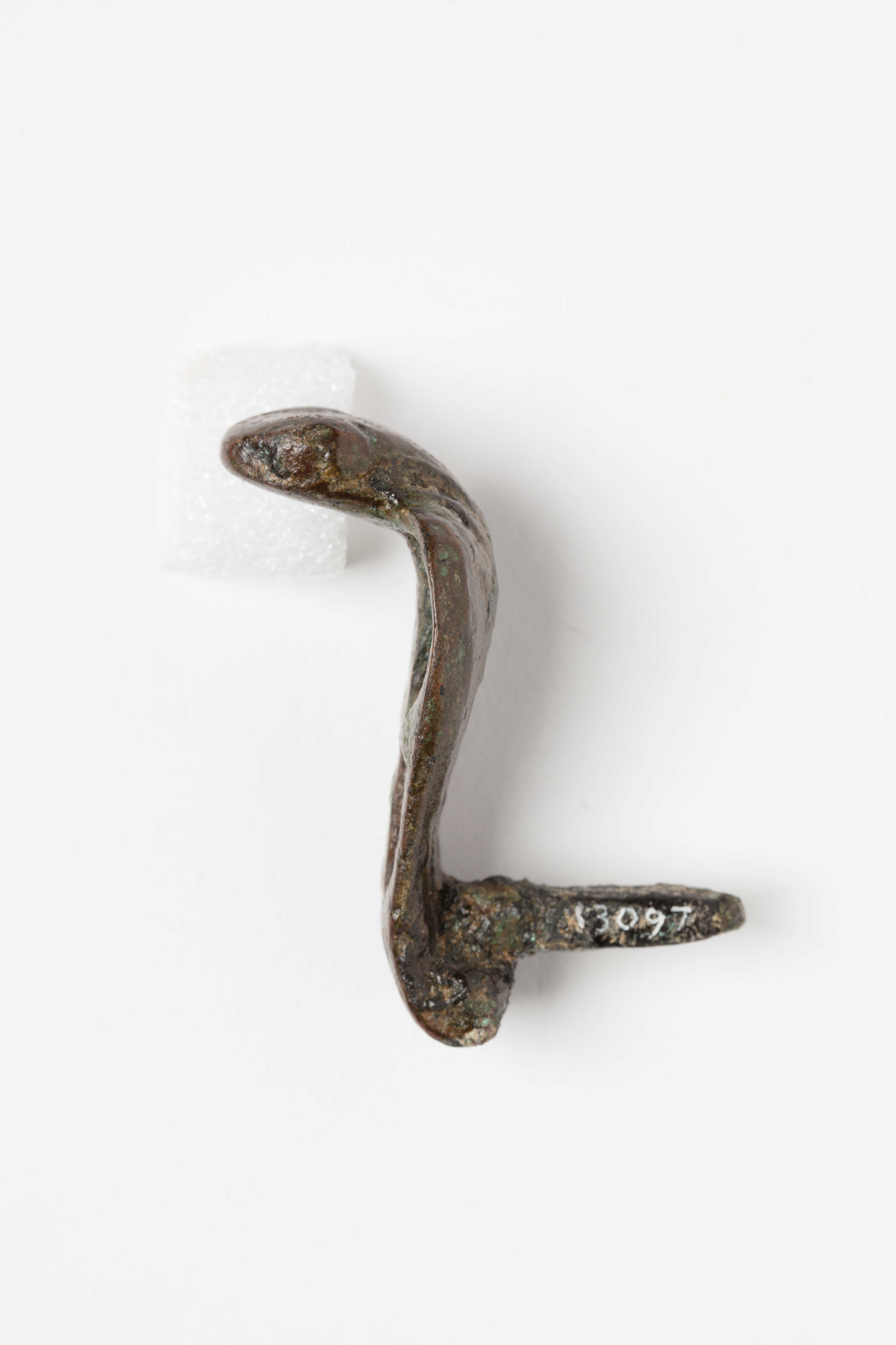 Ornament. Uraeus head ornament of bronze. A tenson sits above the tail.